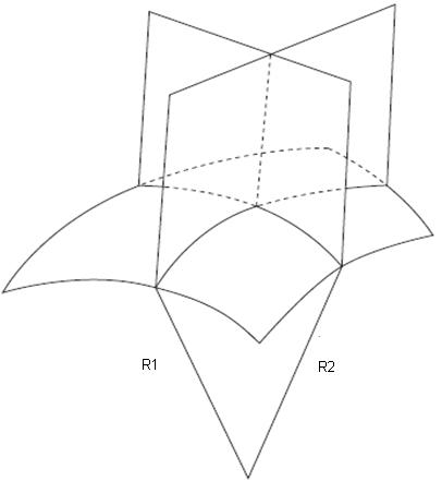 Curvature radius